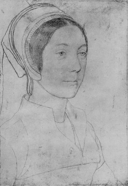 Much rubbed and retouched by later hands.